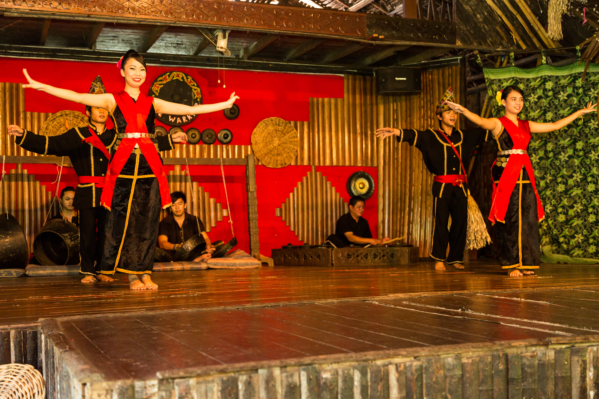 Kg. Kuai Kandazon, Penampang, Sabah: Members of Monsopiad Cultural Village during the performance of traditional danses